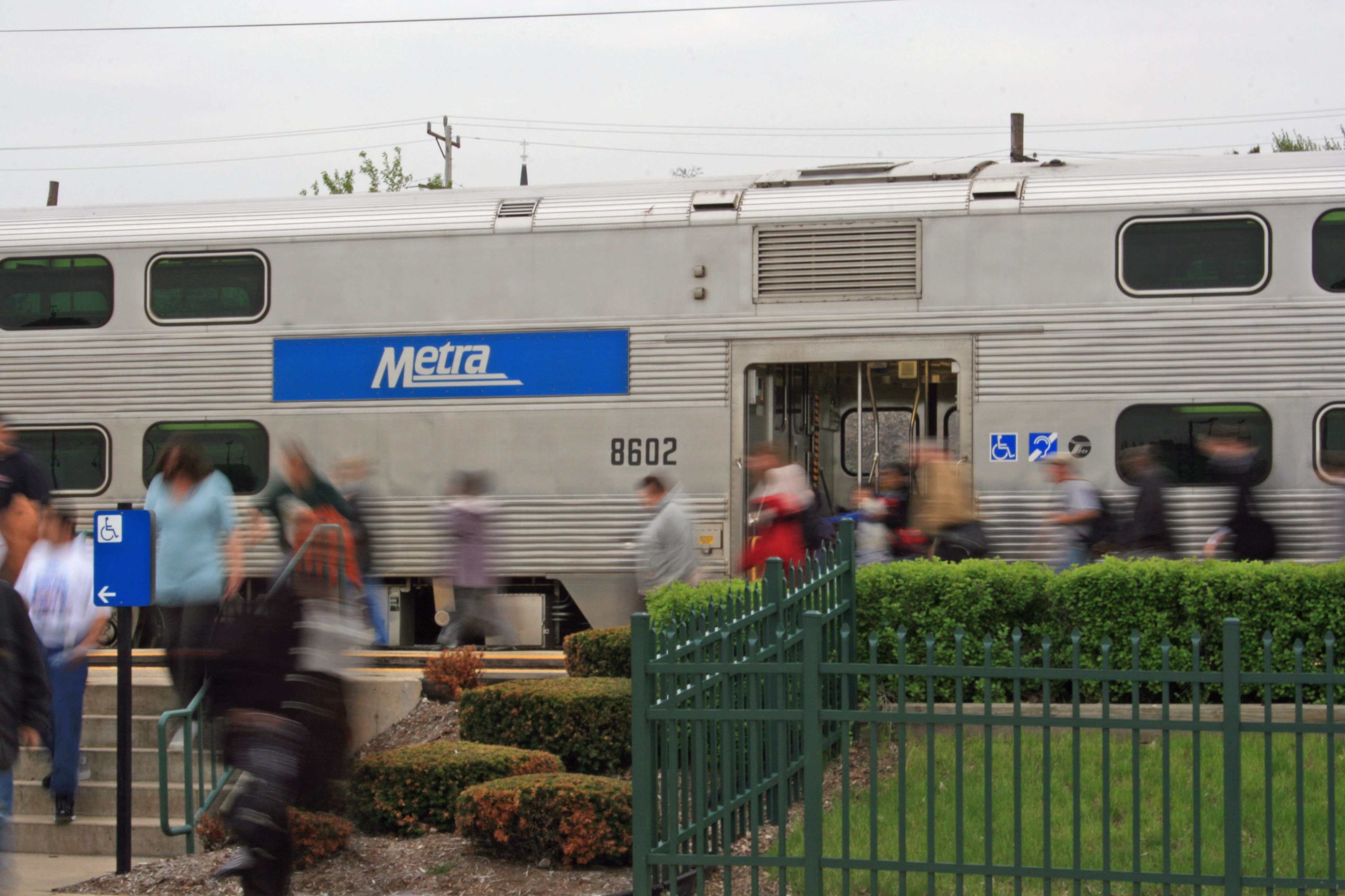 passengers arriving at the Aurora Transportation Center